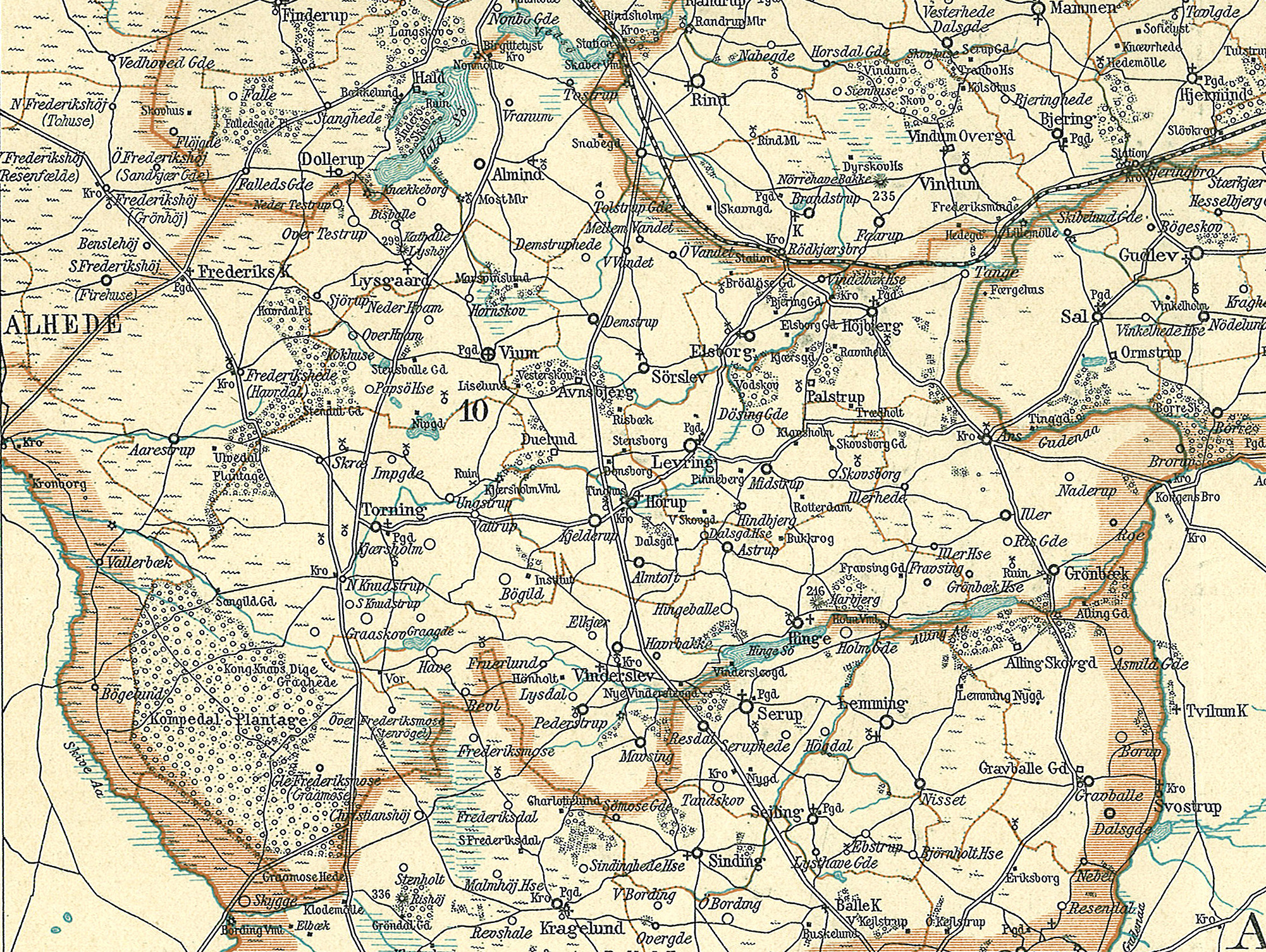 Map of Holbjerg Herred in the eastern part of Viborg County in Denmark